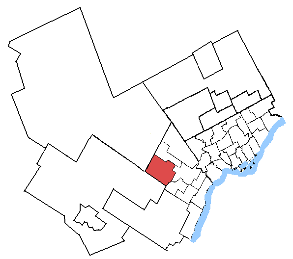 Map of the Brampton West electoral district. Based on Earl Andrew's maps, created by SimonP.